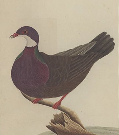 Painting of the Lord Howe Island Pigeon, by George Raper